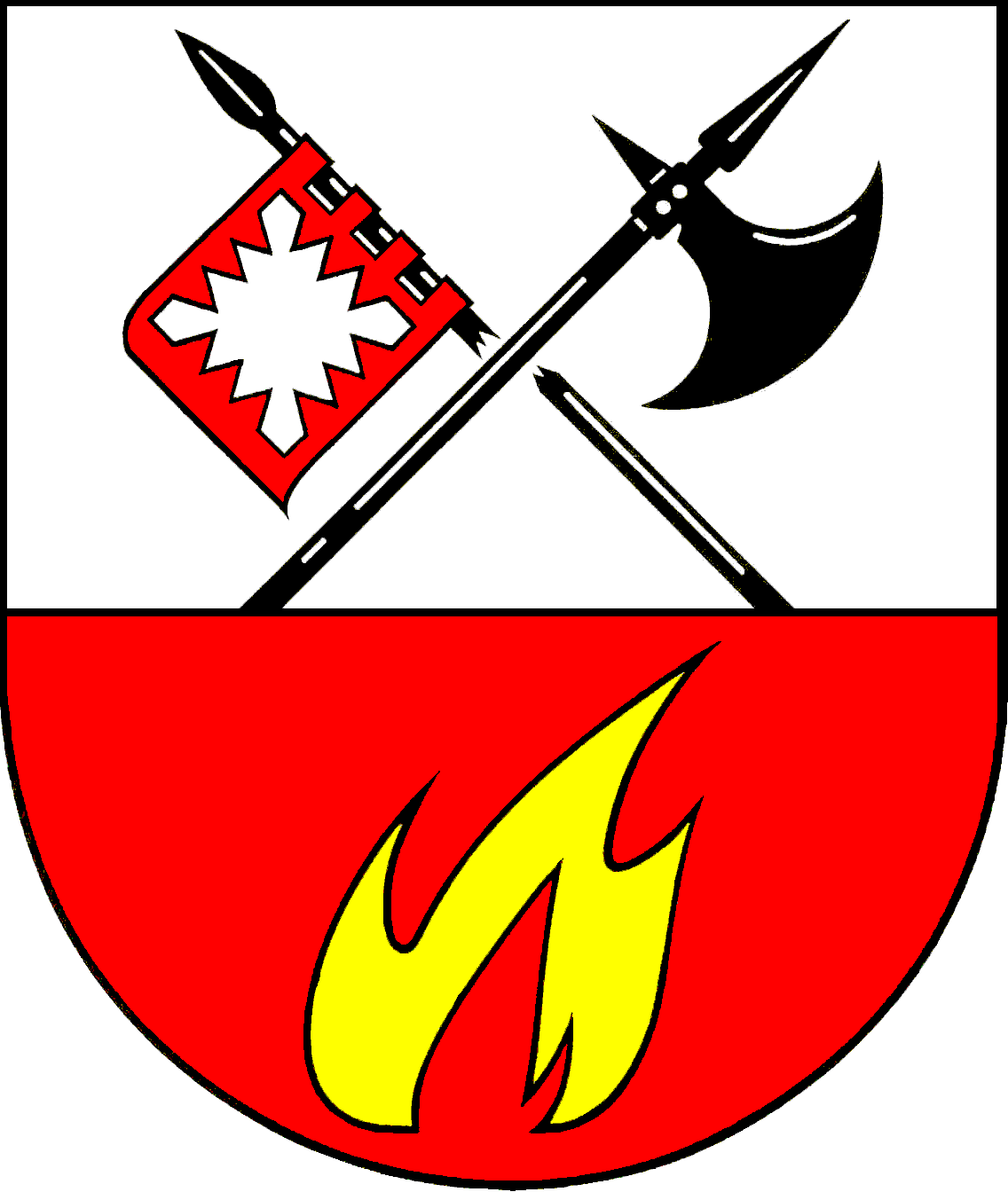 Coat of arms of the municipality Hemmingstedt in Schleswig-Holstein, Germany.